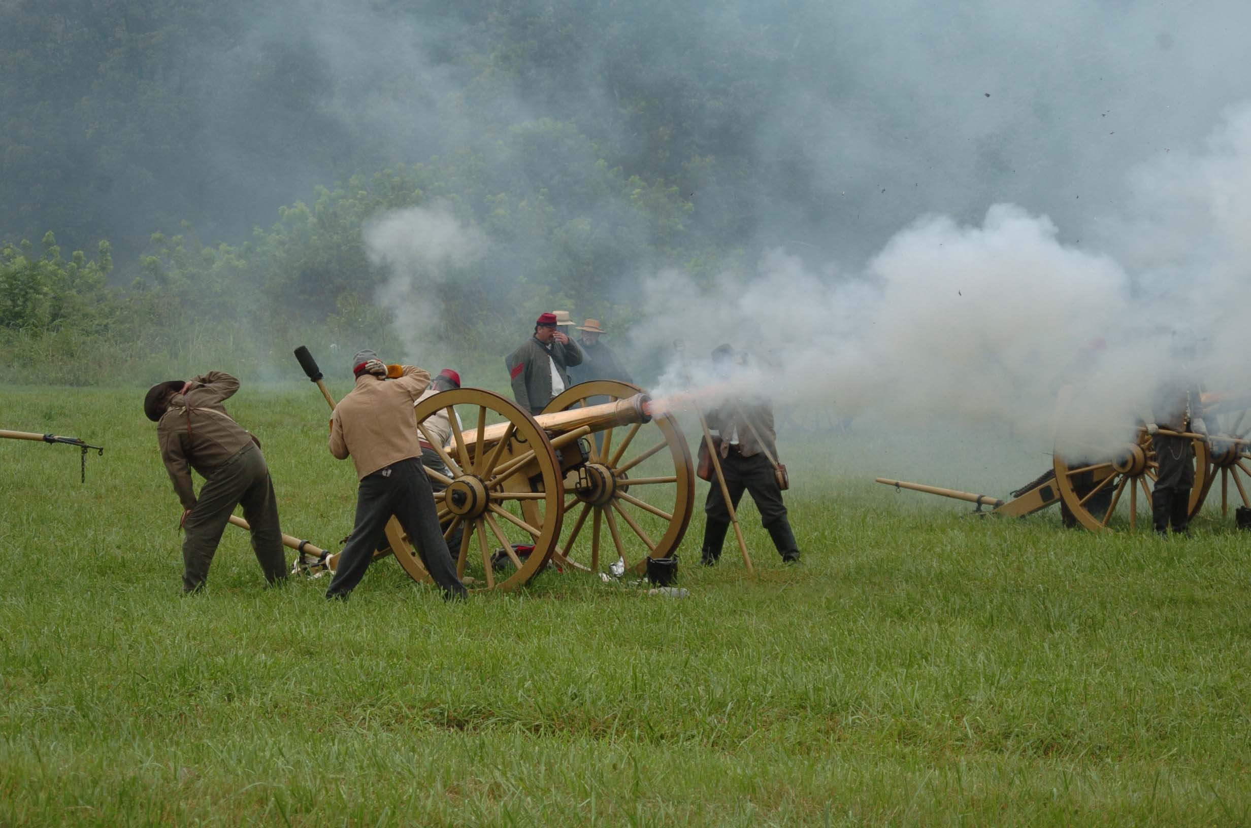 A Confederate artillery unit re-enacts the Civil War Battle of Saltville.